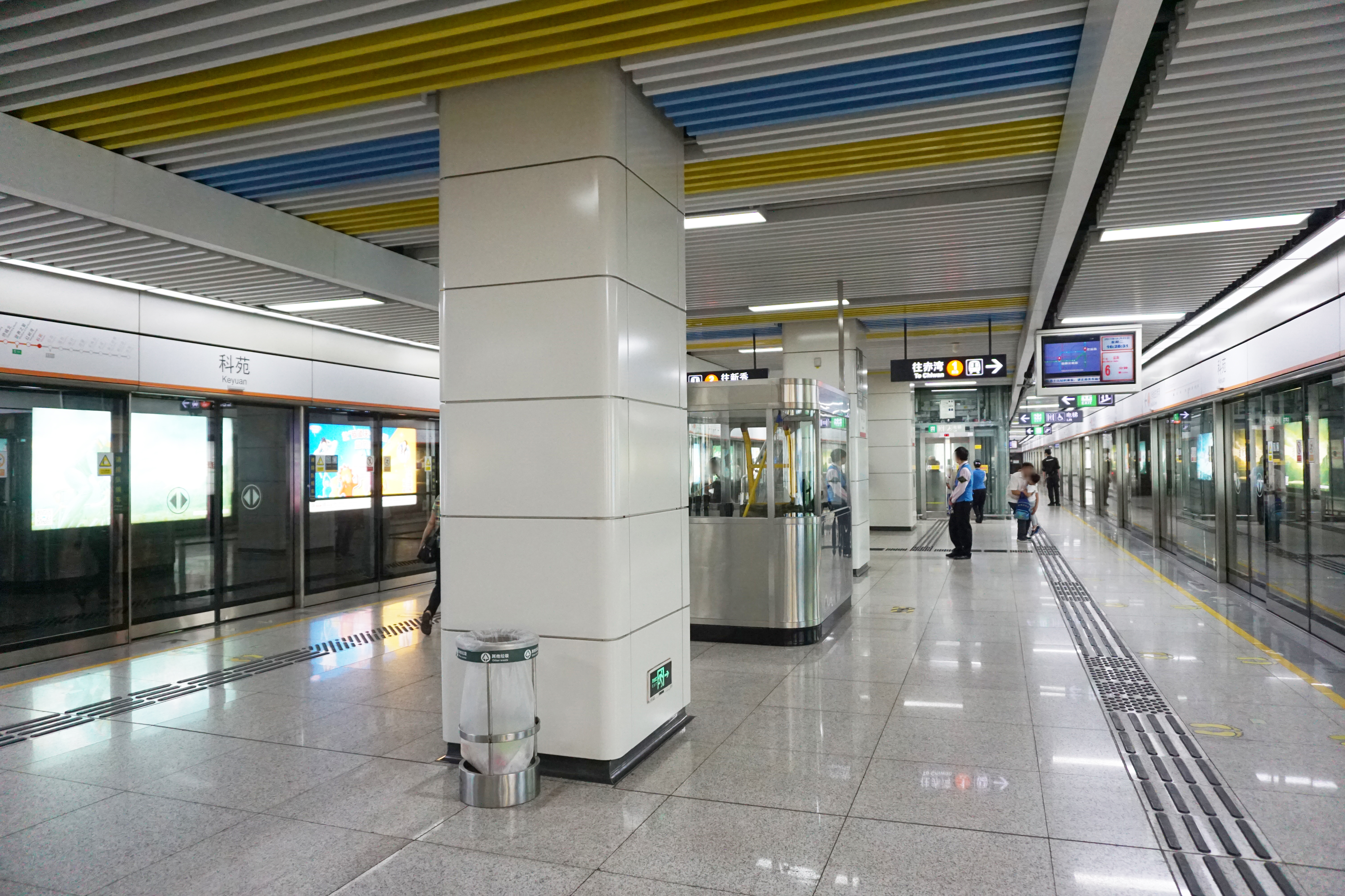 Keyuan Station in Nanshan District, Shenzhen.